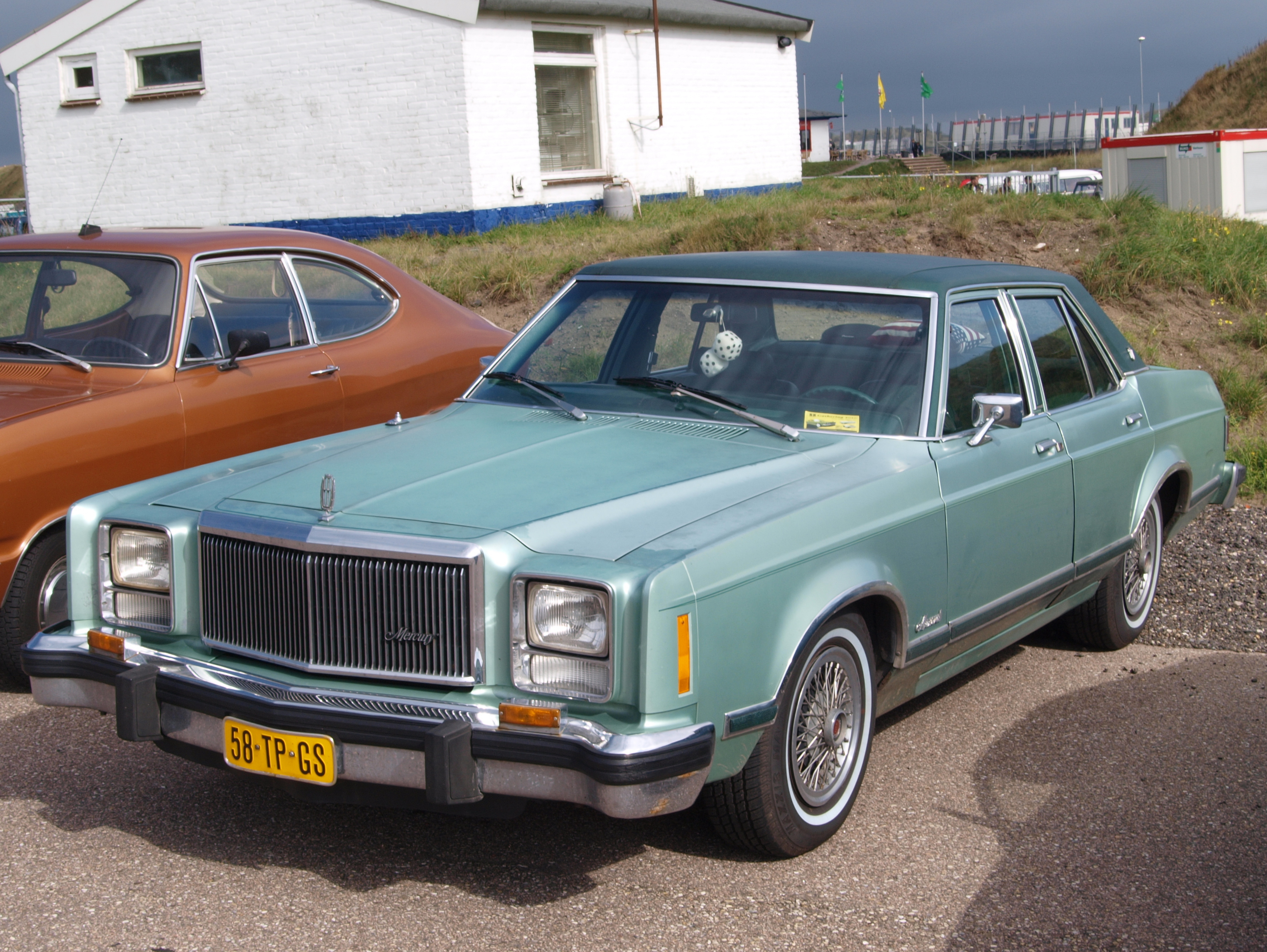 Photographed at the Nationaal Oldtimer Festival Zandvoort 2010, The Netherlands.